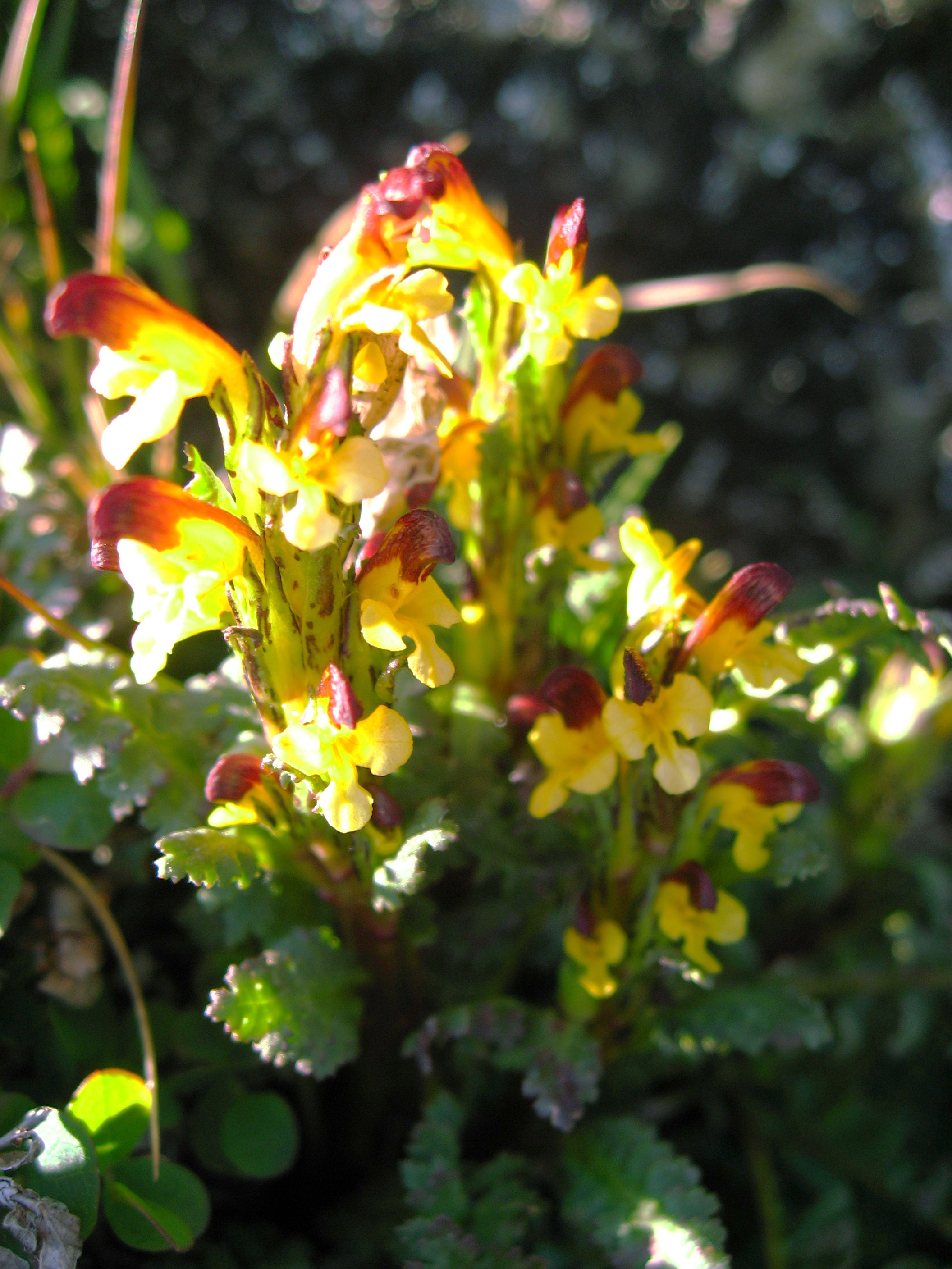 Redrattle (Pedicularis flammea) photographed near Upernavik, Greenland.